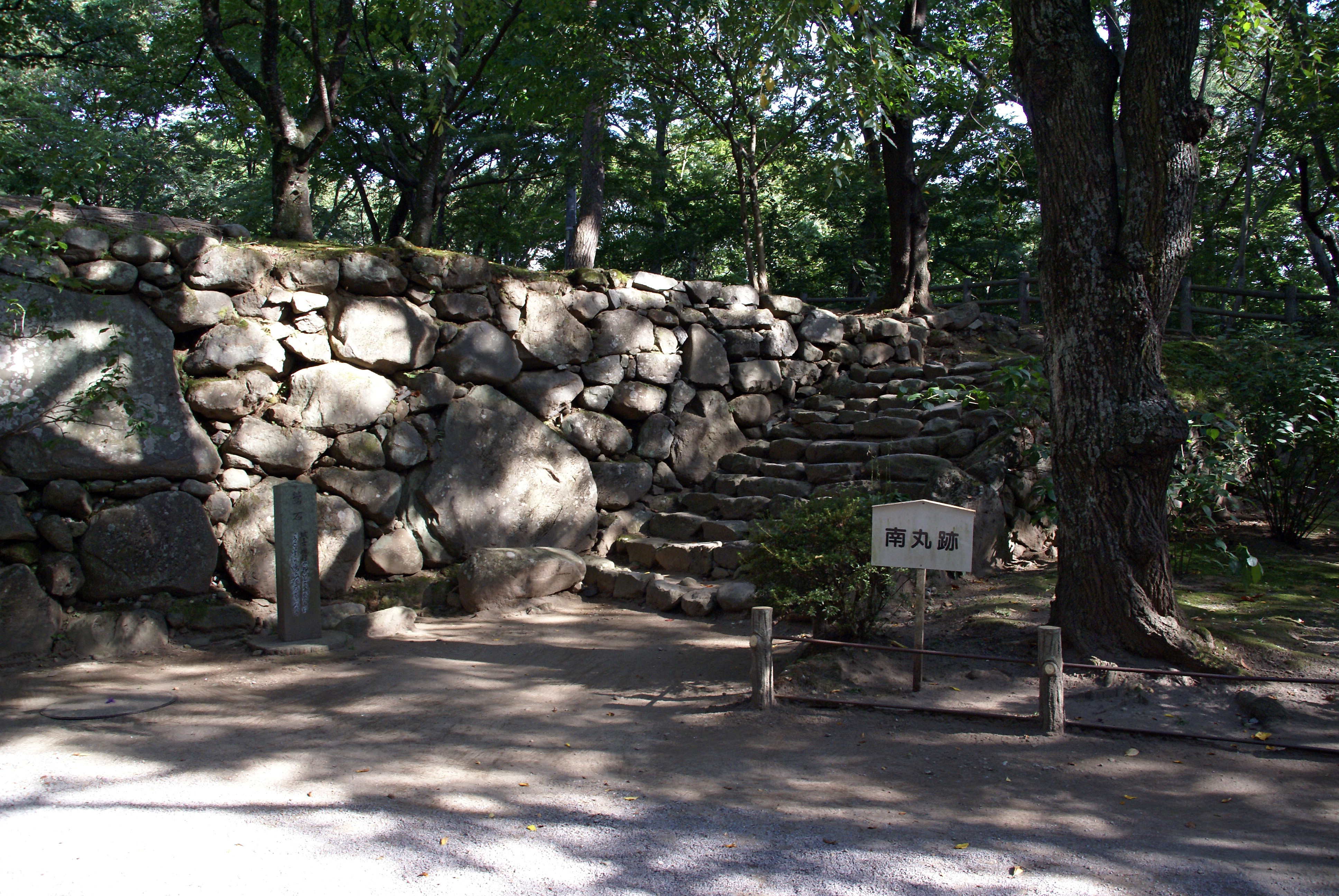 Komoro Castle in Komoro, Nagano prefecture, Japan